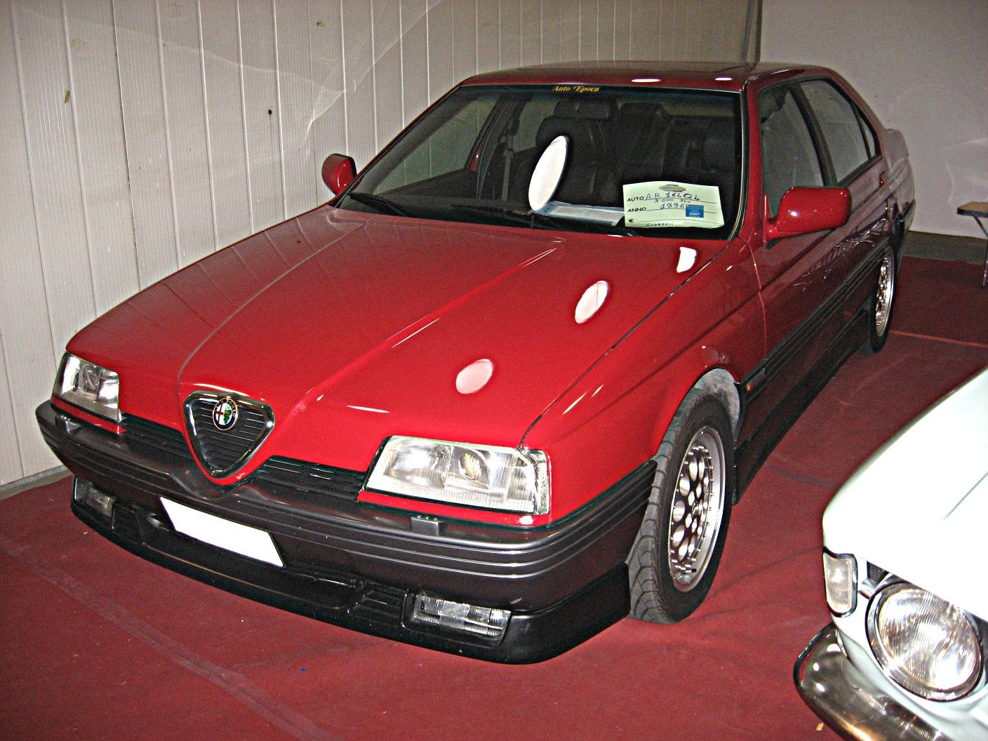 Subject:Alfa Romeo 164 3.0 V6 Q4 Author:Luc106 Date:November 24th, 2007 Event:Markè-Retrò 2007 Place/country:Cesena (FC), Italy I release all rights in the public domain.